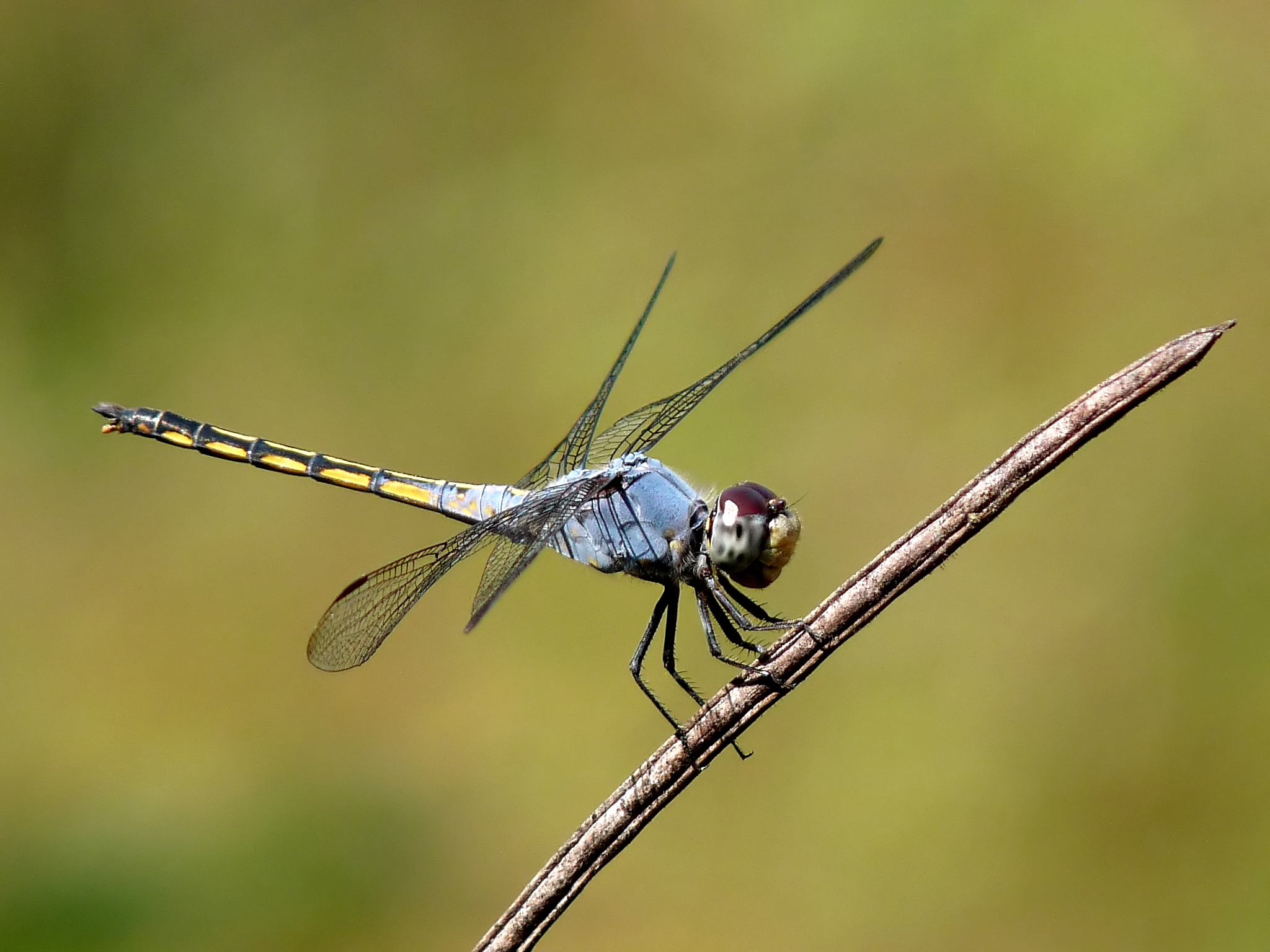 Potamarcha congener male Potamarcha congener, commonly known as Yellow-tailed Ashy Skimmer or Common Chaser, is a medium sized dragonfly with bluish black thorax and yellow tail with black markings. Face is olivaceous yellow to steel black or brown. Eyes are reddish brown above and bluish grey below. In male adults, thorax and first four segments of the abdomen are covered with bluish pruinescence. In young adults, yellow markings are visible through the pruinescence. The rest of the abdomen is black with orange markings, with the last two segments entirely black. The female thorax has yellow and black stripes on the sides. The abdomen is black with dull orange markings, and has prominent flaps on each side of segment eight. The flaps may serve to hold the eggs in place during oviposition. Taken at Kadavoor, Kerala, India.